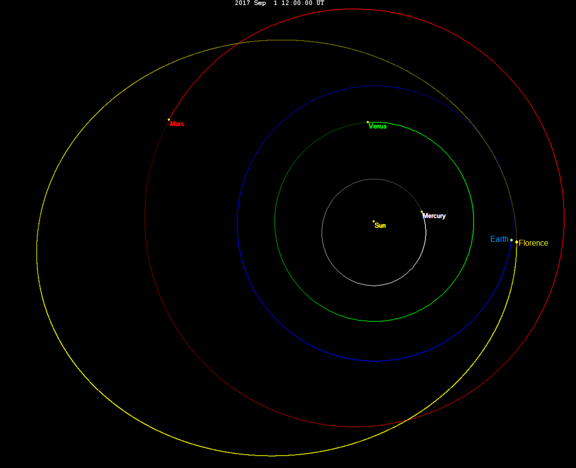 en:3122 Florence-earth flyby 2017, with inner solar system